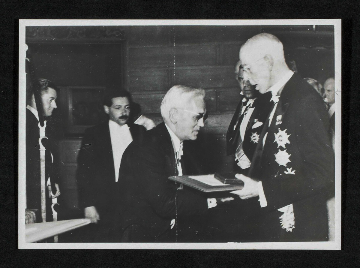 Alexander Fleming receives the Nobel Prize from King Gustaf V of Sweden.